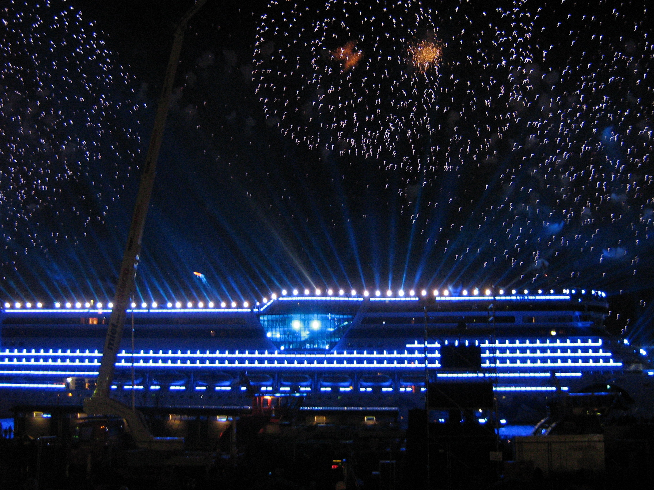 IMO Number: 9334856 MMSI Number: 247187700 Callsign: ICDH Length: 252 m Beam: 38 m